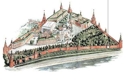 Overview map of the Moscow Kremlin. Location of Petrovskaya Tower marked.